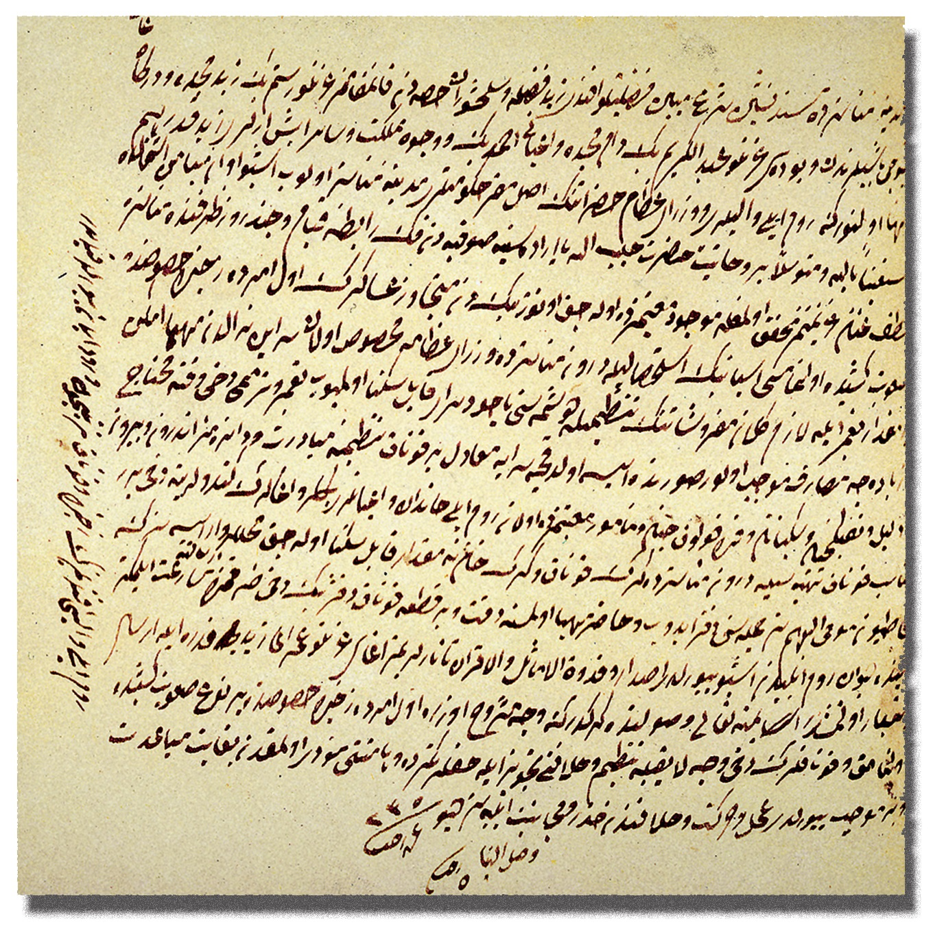 The order about Negush rebellion This media file is produced by Wikipedian in Residence in Category:Wikipedian in Residence at DARM in 2016.